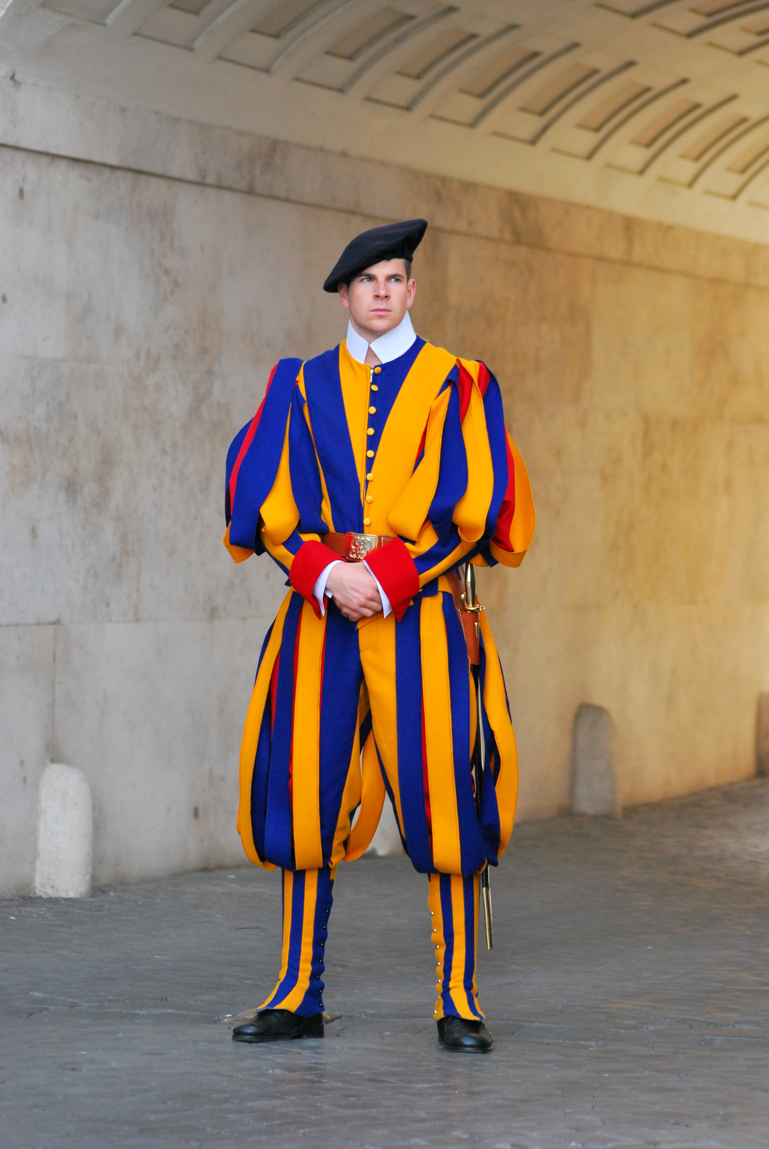 Swiss Guard Posted at St. Peter's Basilica - Rome, Italy